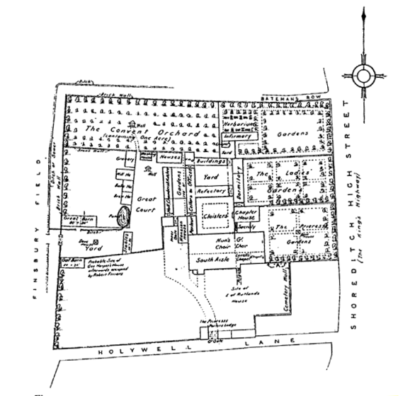 A 1544 map showing the details of the agreement between Alice Hampton and Elizabeth Prudde concerning the use of Halliwell Priory. From a 1925 book by London County Council